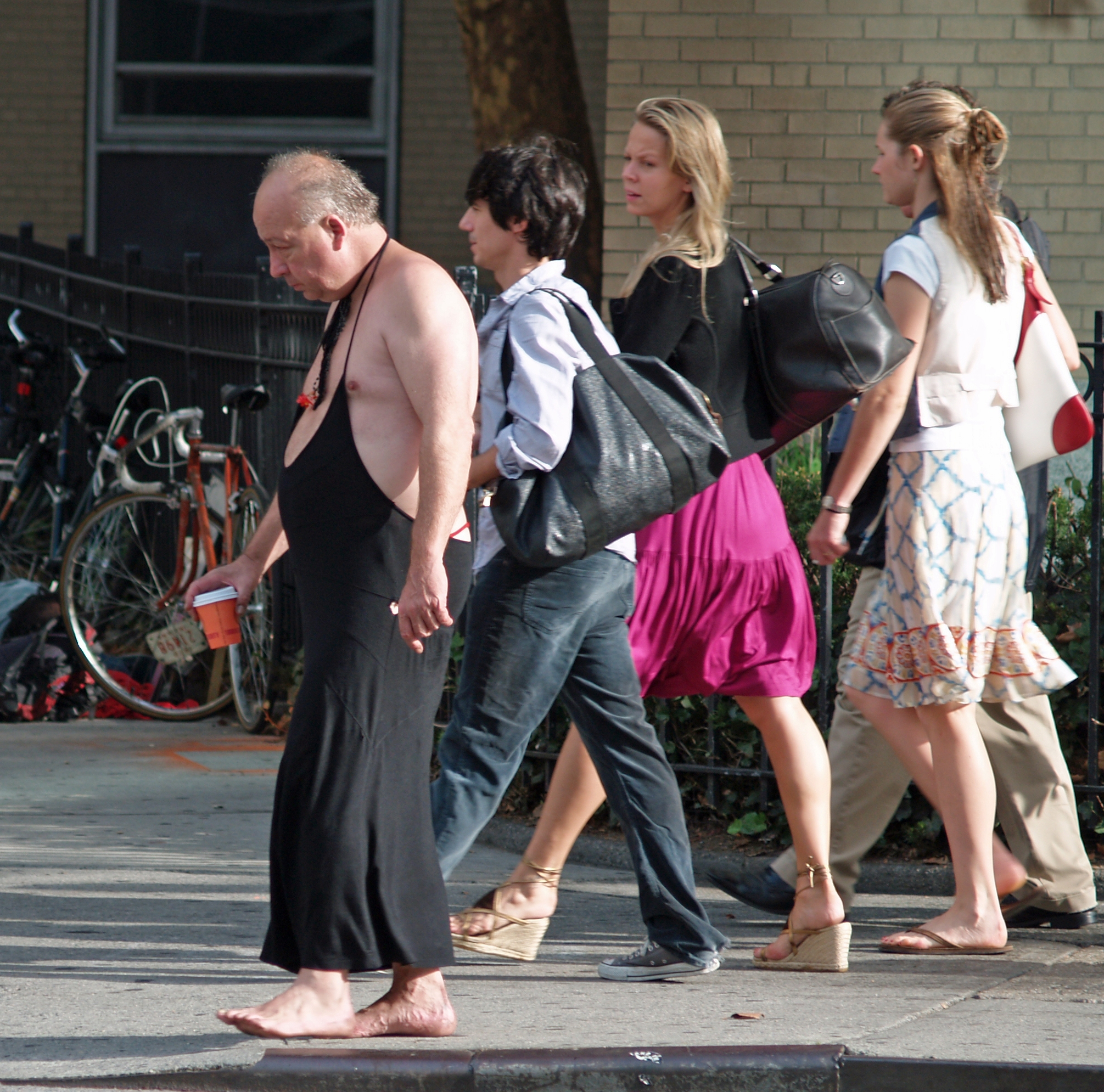 Cross dresser going for a coffee run by David Shankbone